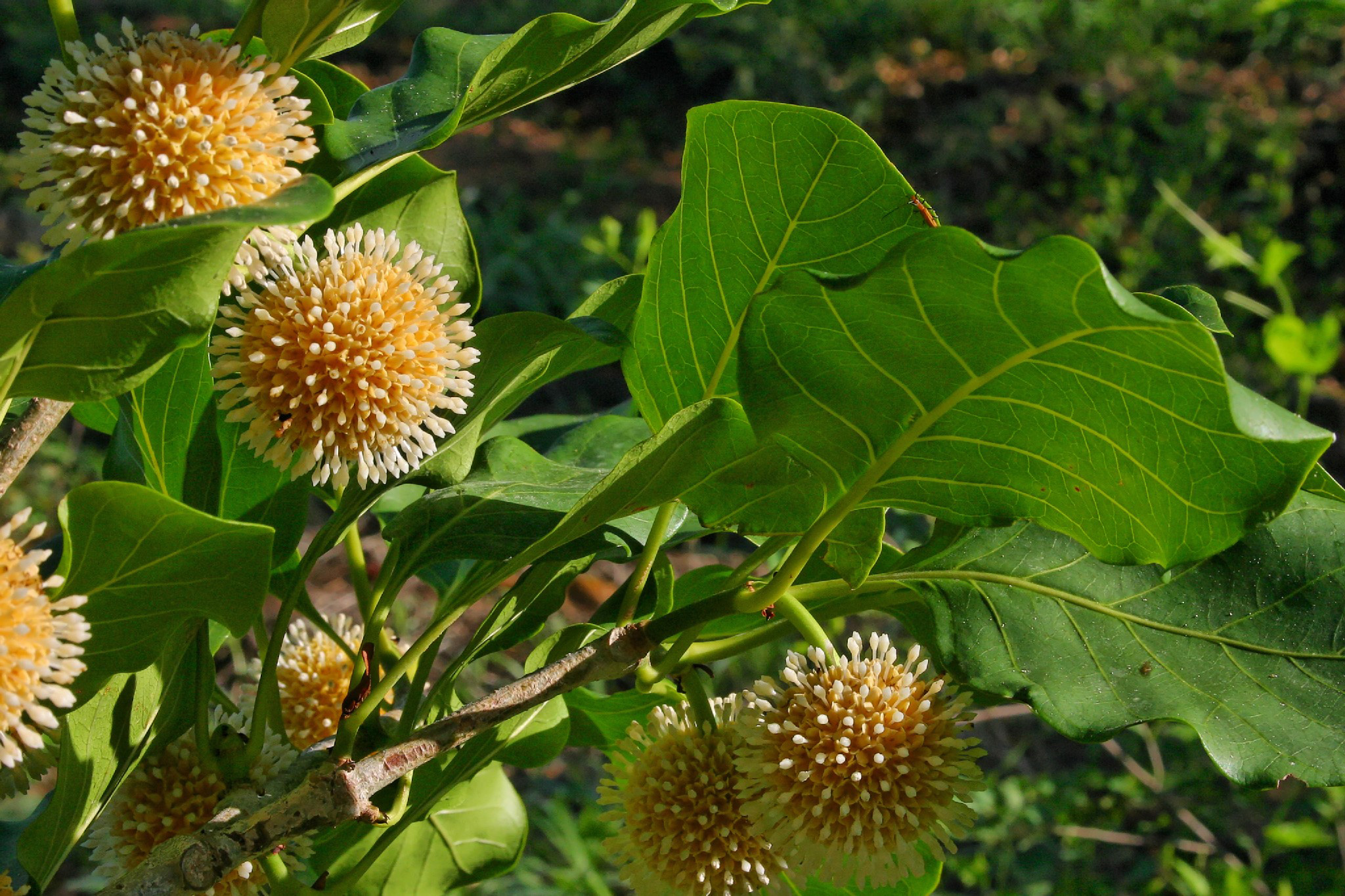 Northern Territory -- Gregory National Park: East Baines River below old Bullita homestead.